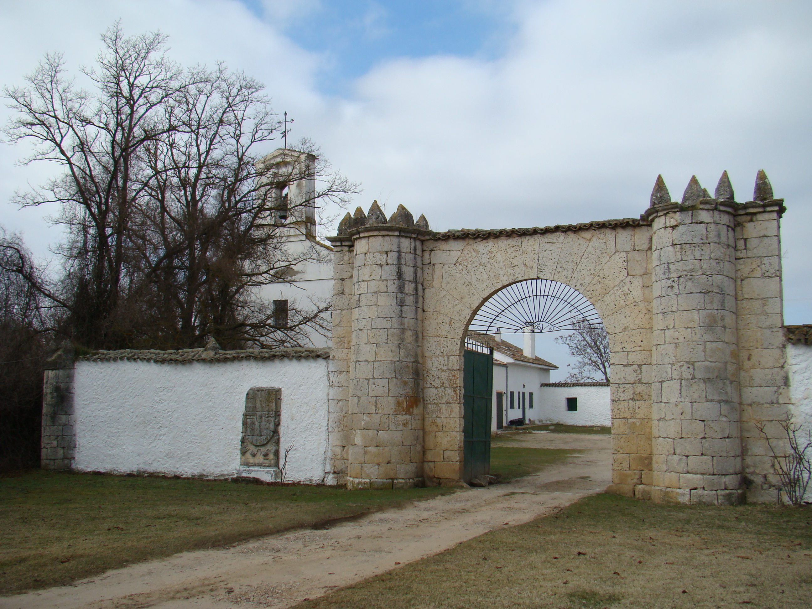 Current property named "Vega de Porras" in Boecillo, Valladolid, Spain. It was a country house owned by the banker Fabio Nelli from which only the entrance, the coat of arms and the chapel remains.